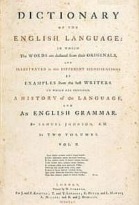 Volume Two of Samuel Johnson's A Dictionary of the English Language title page